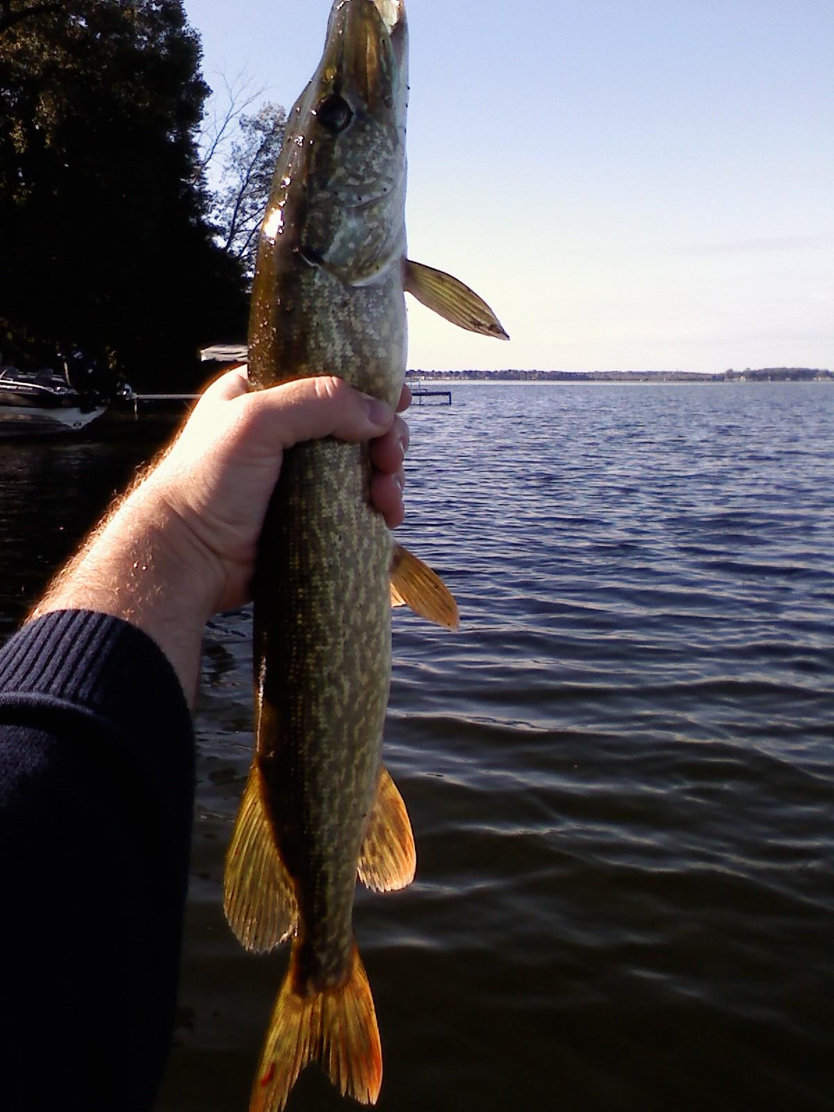 Northern Pike caught on Rock Lake in Lake Mills Wisconsin in the north eastern portion of the lake.